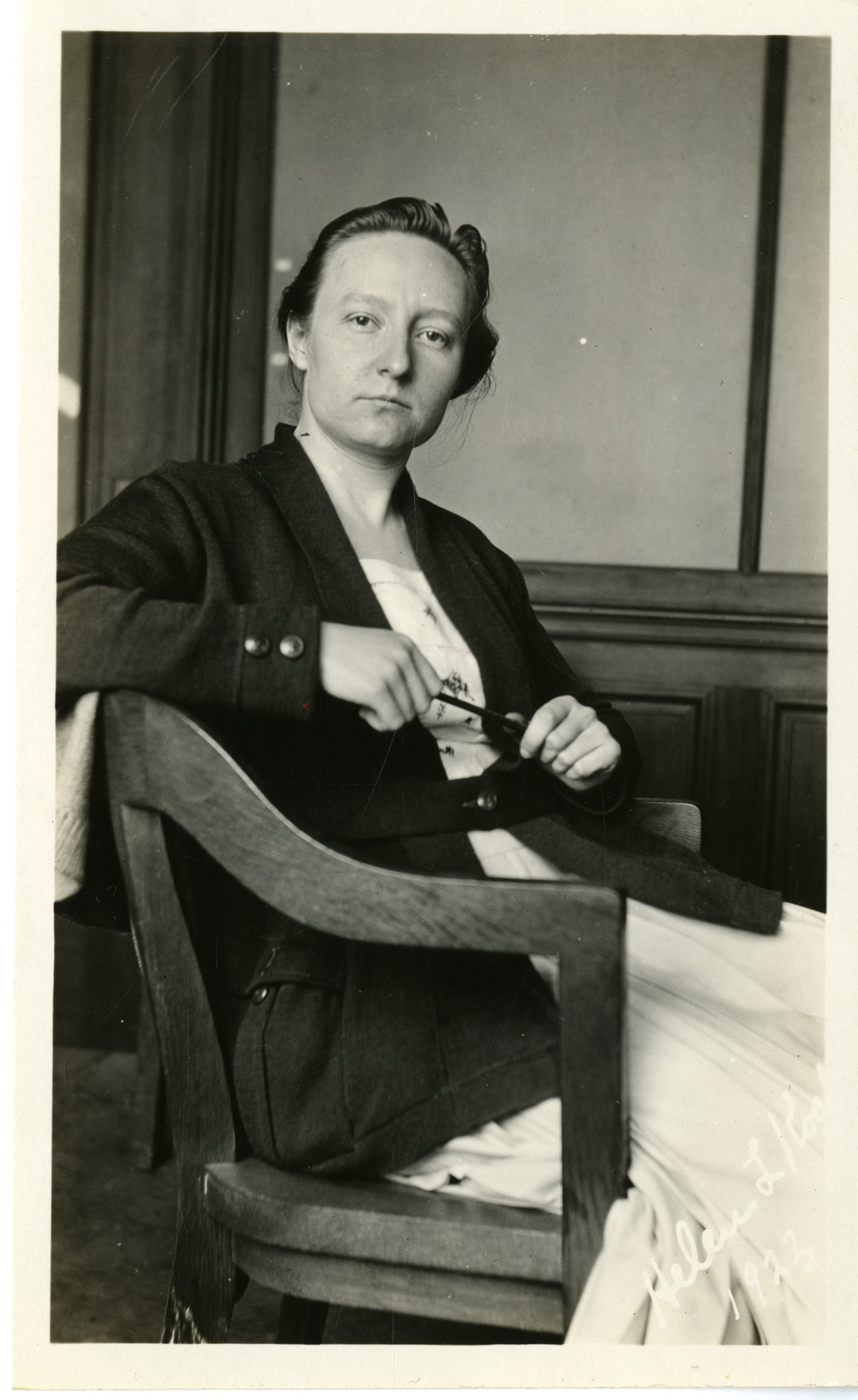 Subject: Koch, Helen Lois 1885-1977 University of Texas University of Chicago Type: Black-and-White Prints Date: 1922 Topic: Psychology Local number: SIA Acc. 90-105 [SIA-SIA2008-4909] Summary: Developmental psychologist Helen Lois Koch (1885-1977) taught at the University of Texas, 1921-1939, and then became professor of child psychology at University of Chicago, 1939-1960. Cite as: Acc. 90-105 - Science Service, Records, 1920s-1970s, Smithsonian Institution Archives Persistent URL:Link to data base record Repository:Smithsonian Institution Archives View more collections from the Smithsonian Institution.